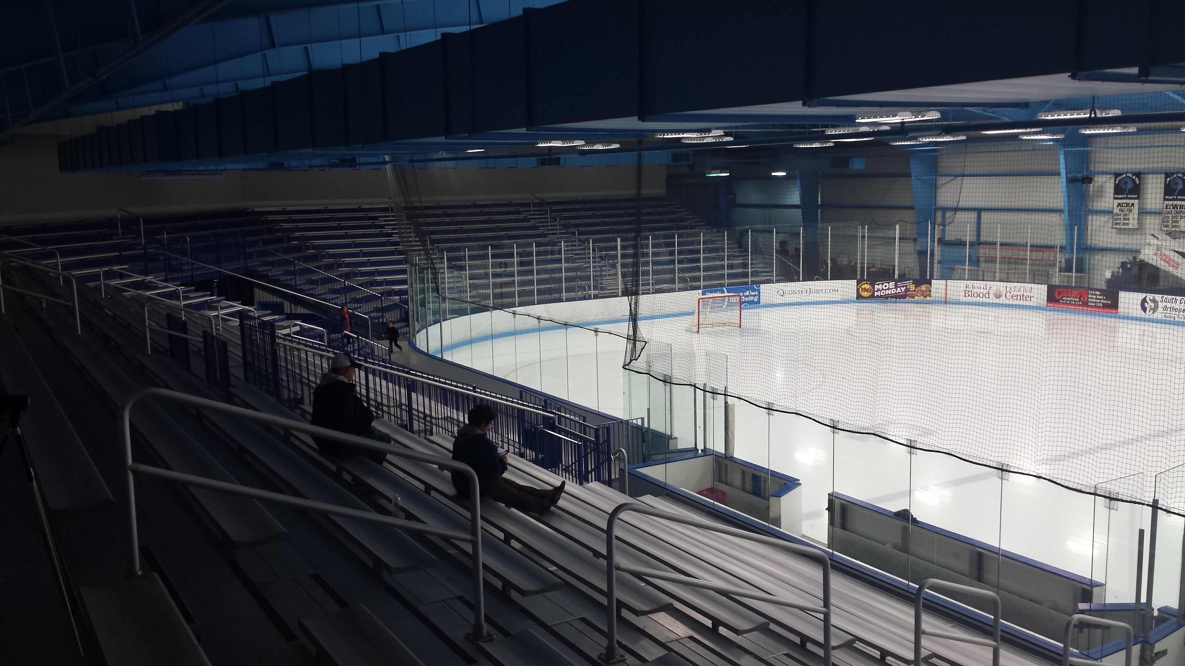 Overview of the interior of Brad Boss Arena in Kingston, RI.